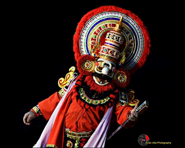 Tenkuthittina Bannada Vesha